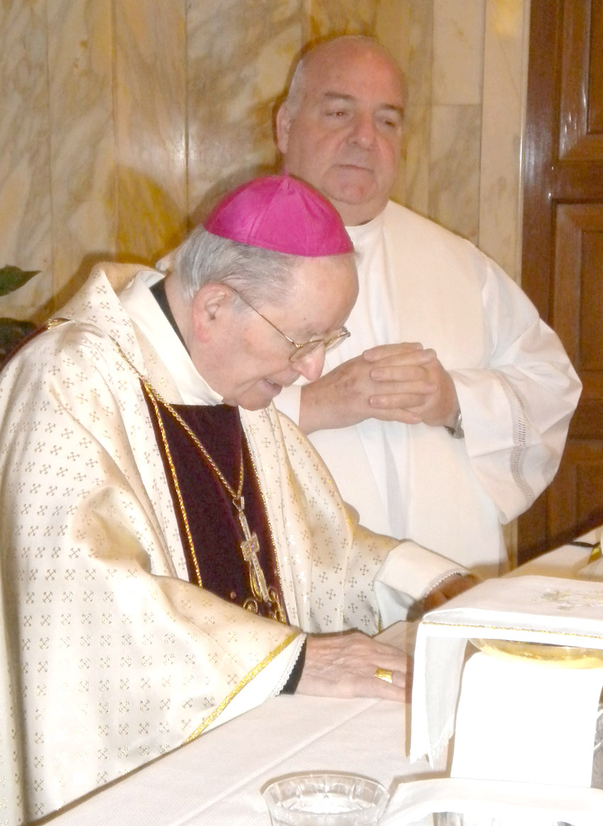 Bishop Andrea Maria Erba, Barnabite